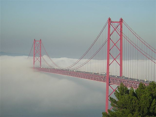 25 de Abril Bridge, Lisbon, Portugal